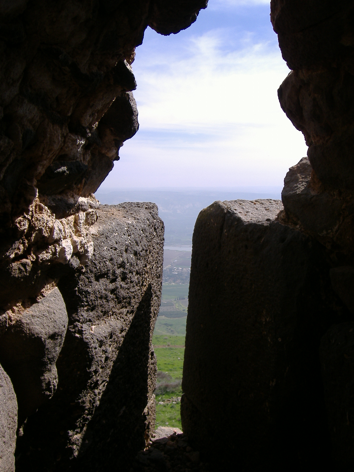 Belvoir Fortress.